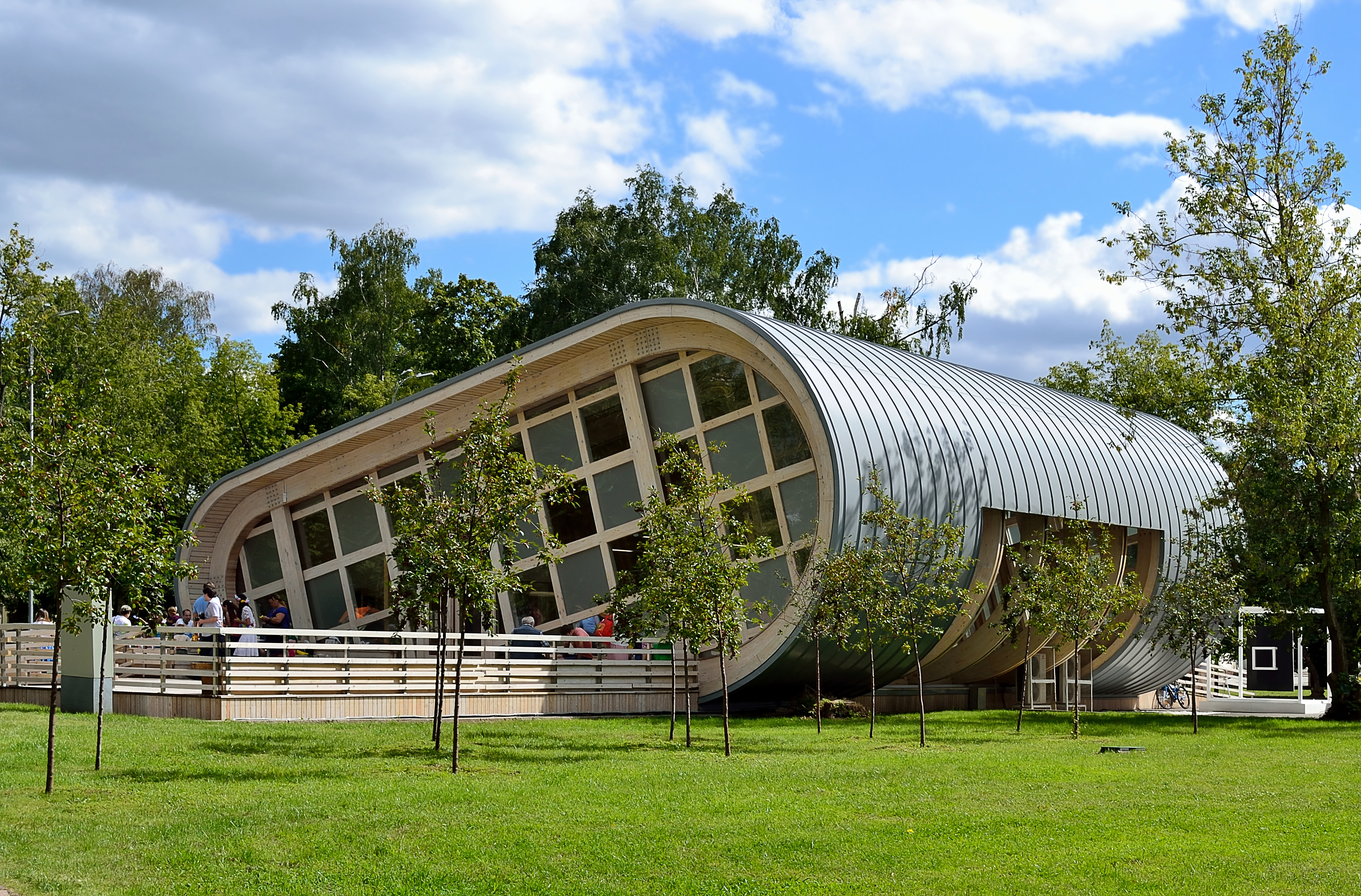 Moscow. VDNKh (the Exhibition of Achievements of the National Economy). The Chess Club. 2015. A photo from the user collection VDNKh.